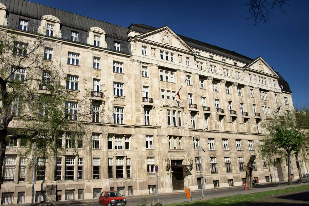 Ministry of Finance, Budapest, Hungary, 5.distr., József nádor tér 2-4.